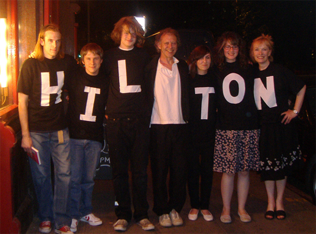 The "Hilton Fan Club" gathers on the final night of the play 'Rabbit' at the Old Red Lion Theatre, London.